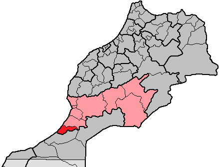 Location of the province Sidi Ifni within the region Souss-Massa-Drâa, Morocco. In total, Morocco has 16 regions, subdivided into 62 provinces and 13 prefectures.